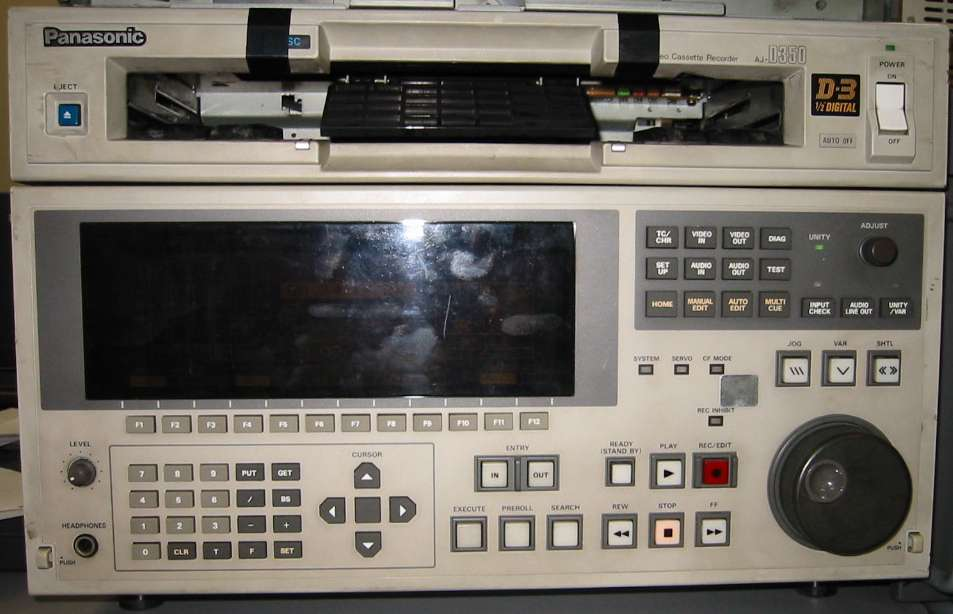 Panasonic D-3 Video Tape Recorder AJ-D350 Matsushita Electric Industrial Co., Ltd.